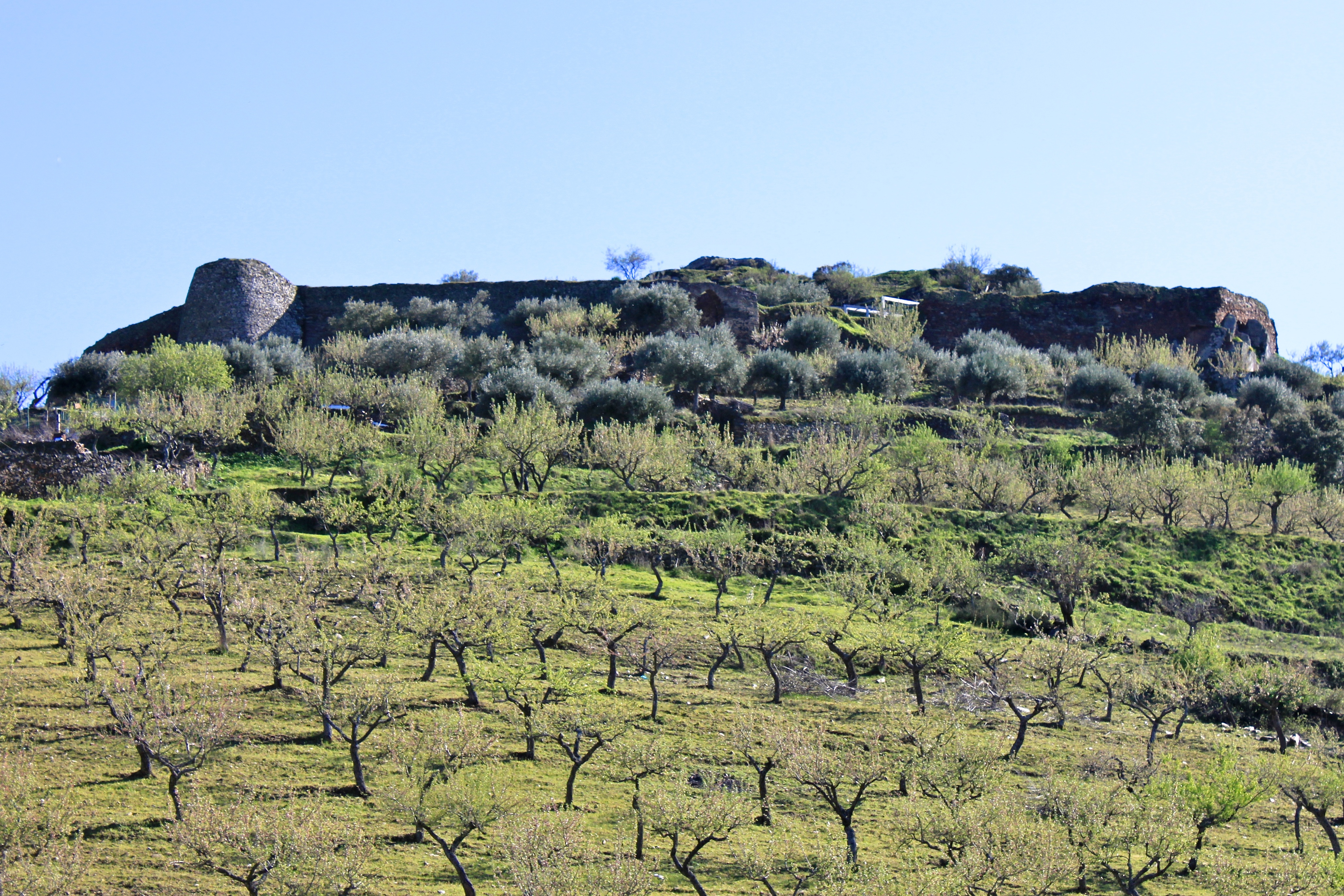 This file was uploaded for Wiki Loves Monuments in Portugal with the unique identifier 74632.